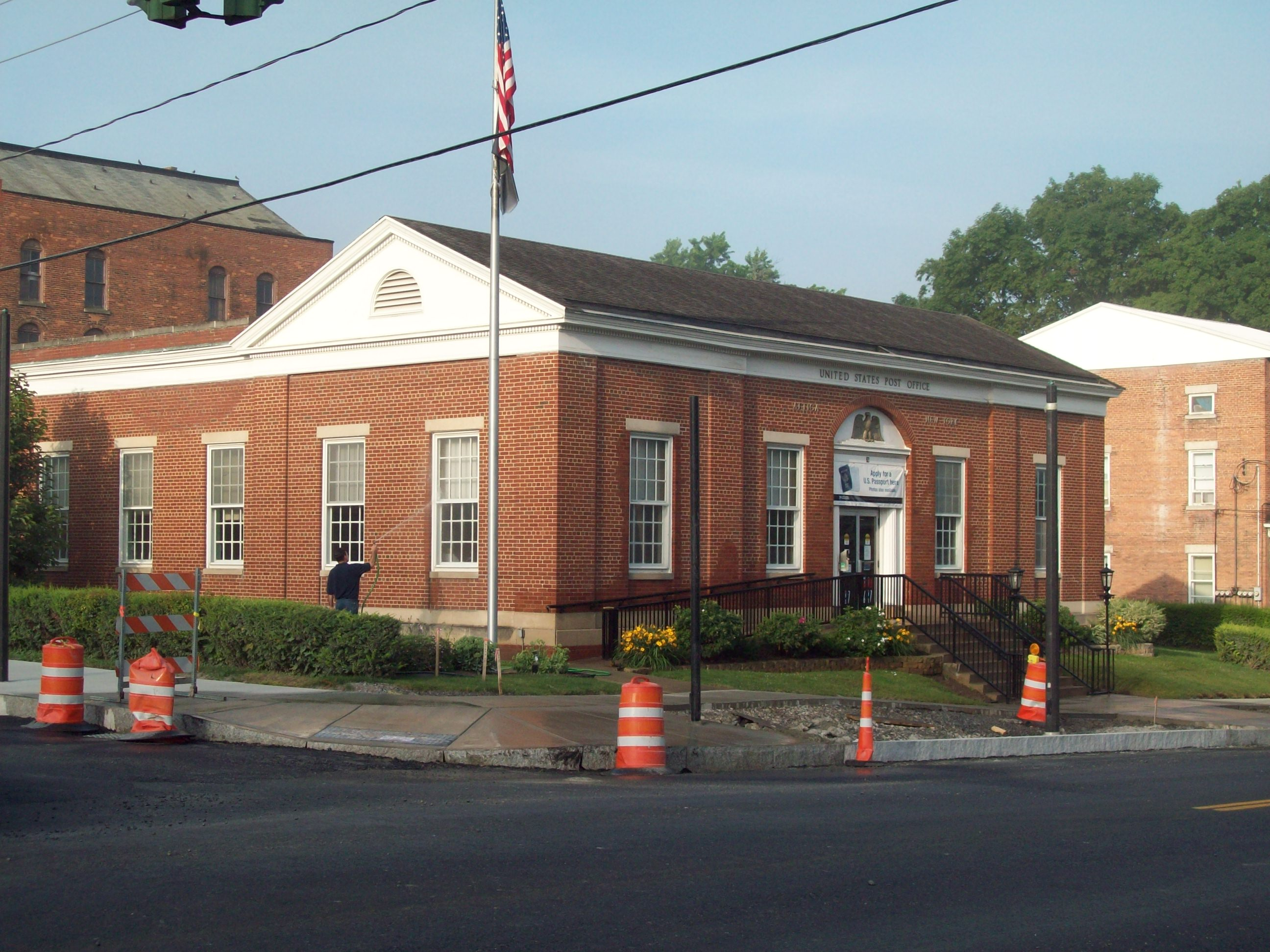 Attica U.S. Post Office — in Attica, New York. 1936 building by the WPA—Works Progress Administration. On the National Register of Historic Places in Wyoming County, New York. July 2011N